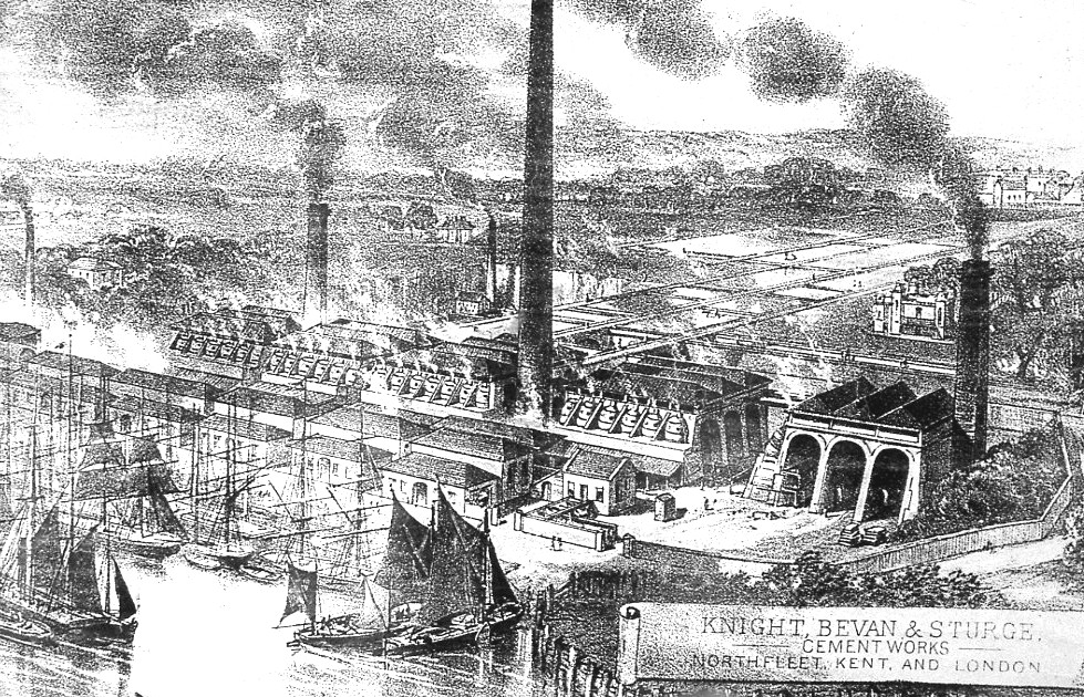 Engraving of the Knight, Bevan and Sturge cement works, Northfleet, UK.